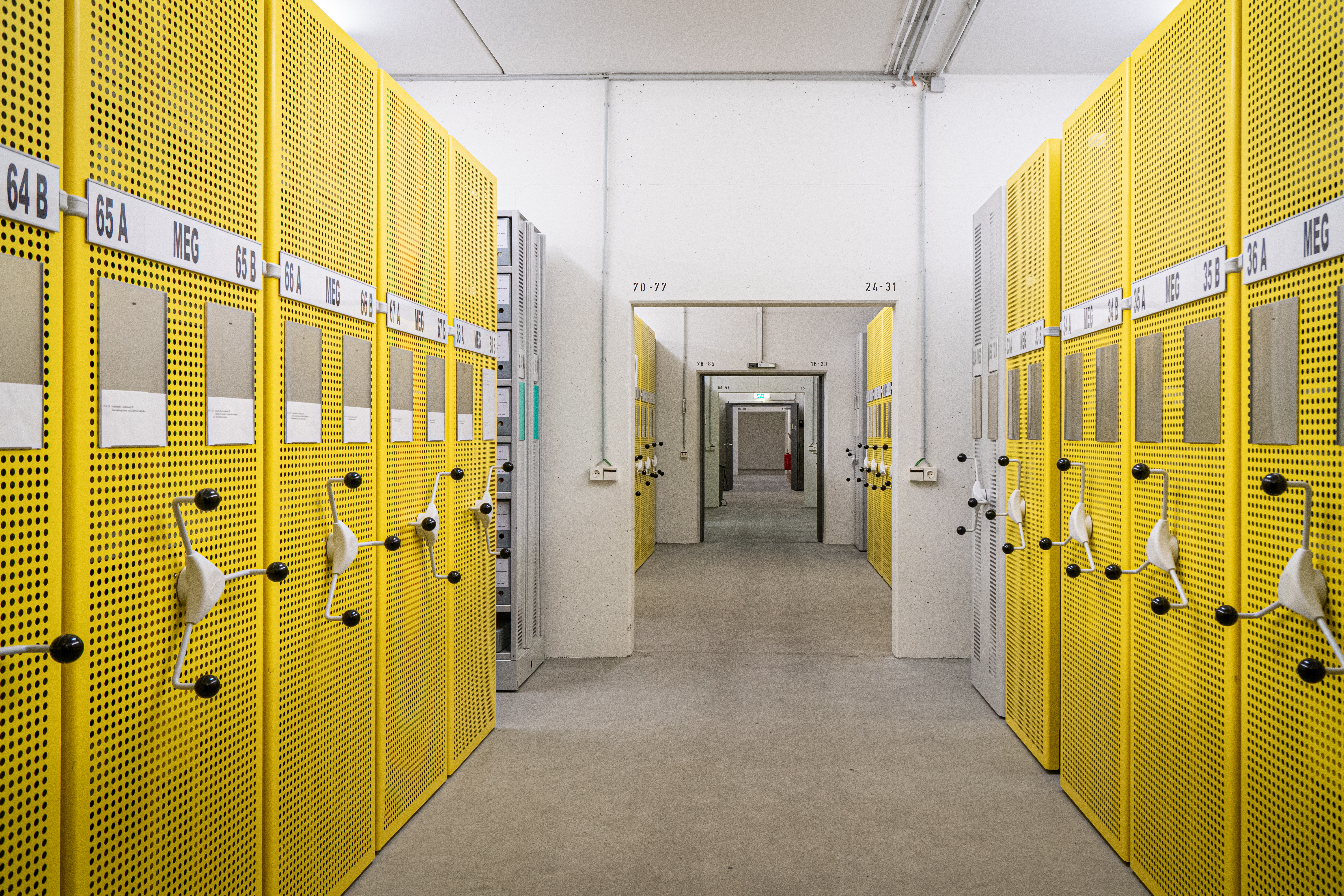 Manual mobile shelving units on the ground floor of the Hamburg State Archive's storage building.